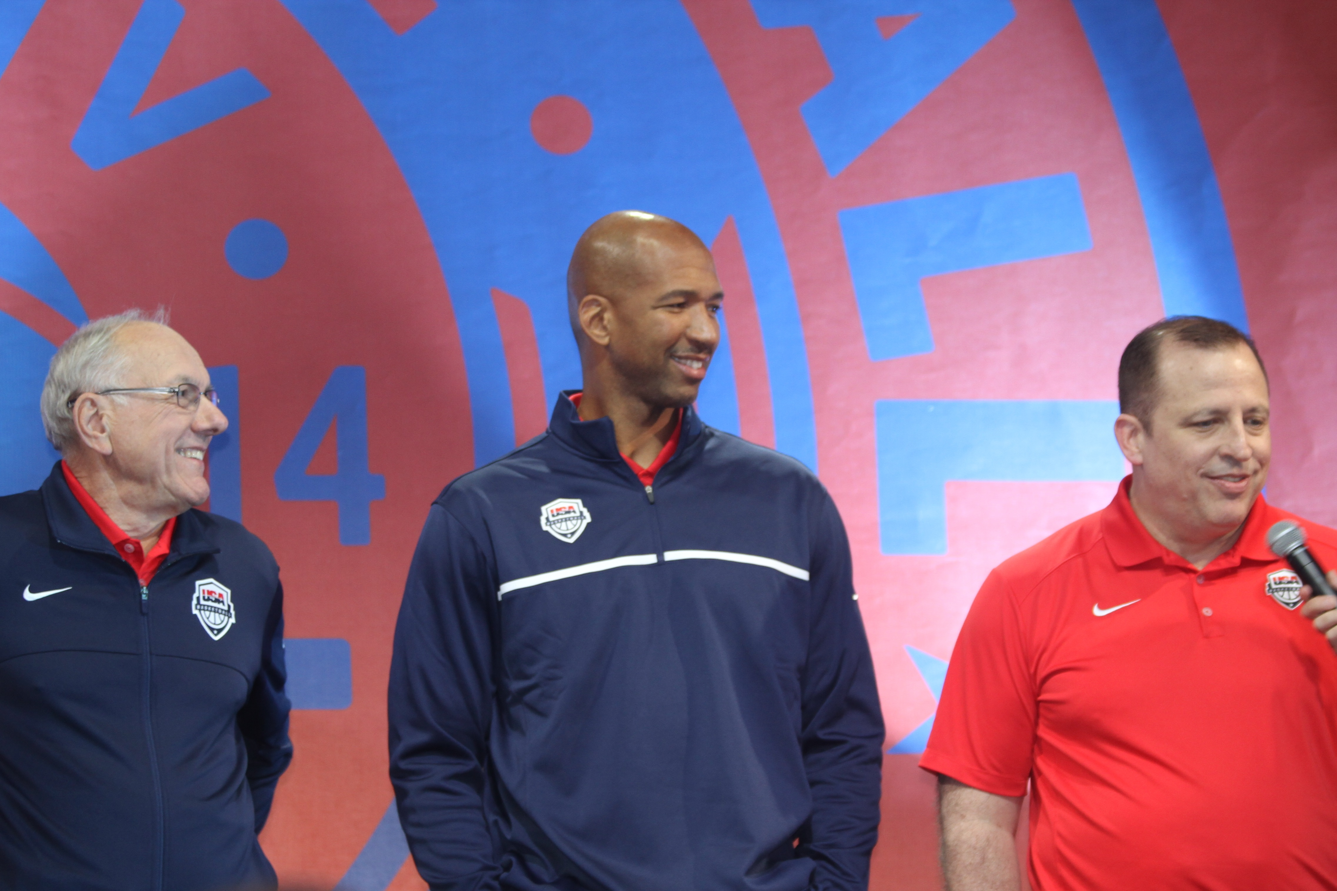 Jim Boeheim, Monty Williams, Tom Thibodeau at the 2014 World Basketball Festival